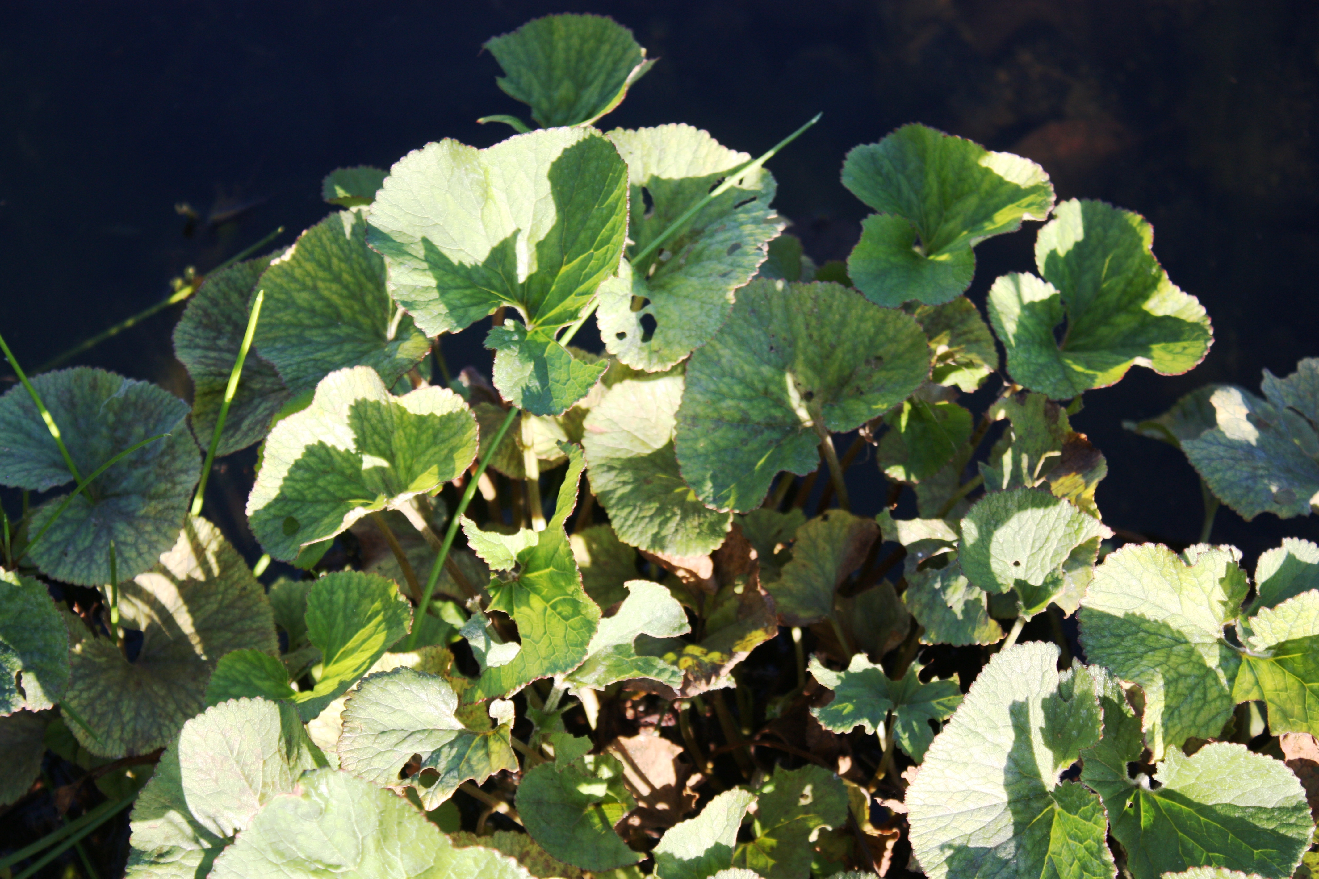 Gunnera perpensa. Indigenous River Pumpkin. wetland plant of South Africa. Cape Town pond garden.